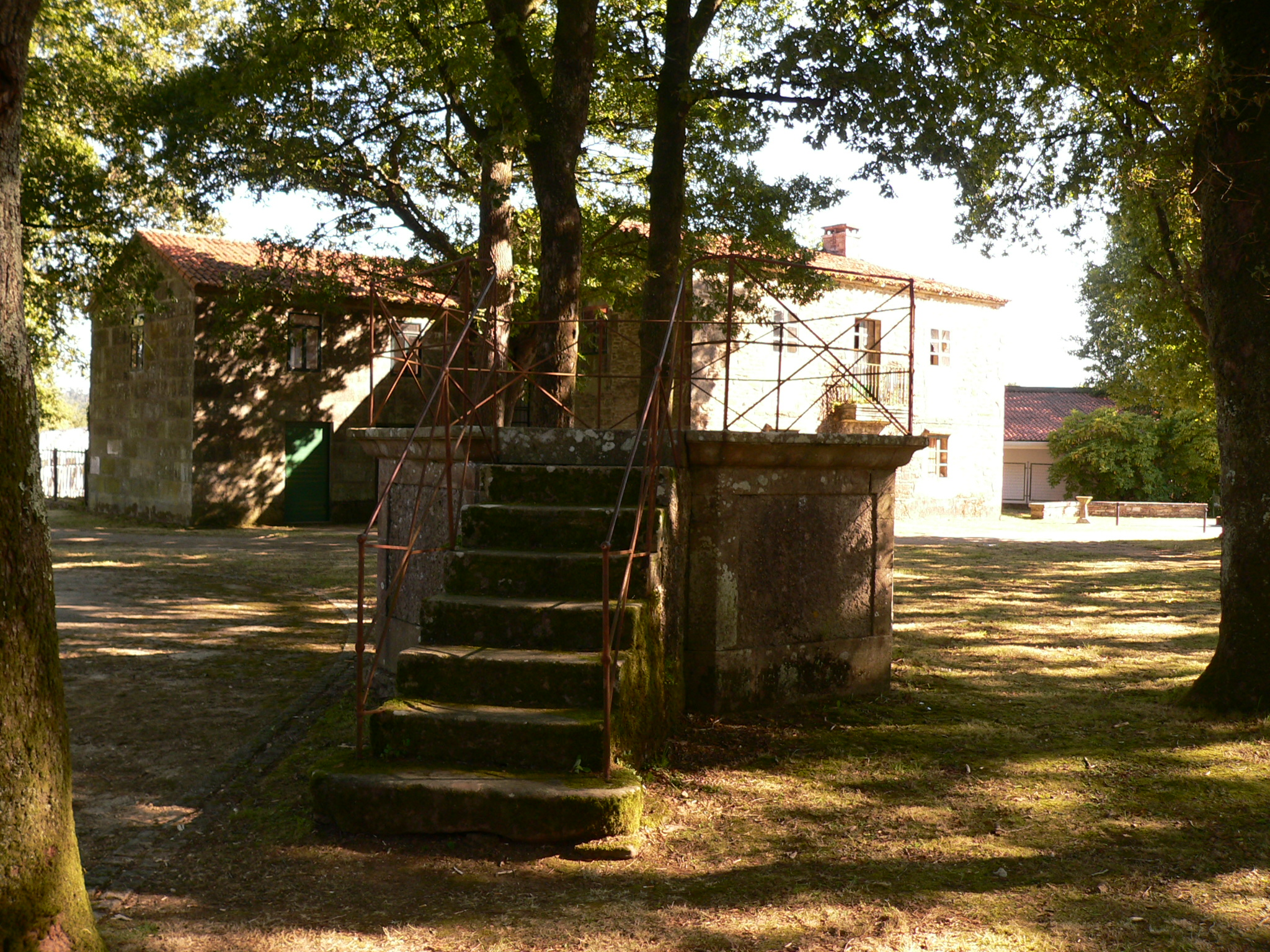 Music band stage in A Peregrina, Santiago de Compostela, Galicia, Spain.